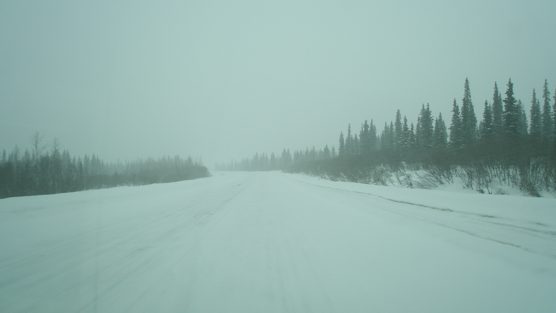 Denali State park roads and campgrounds close from September to May